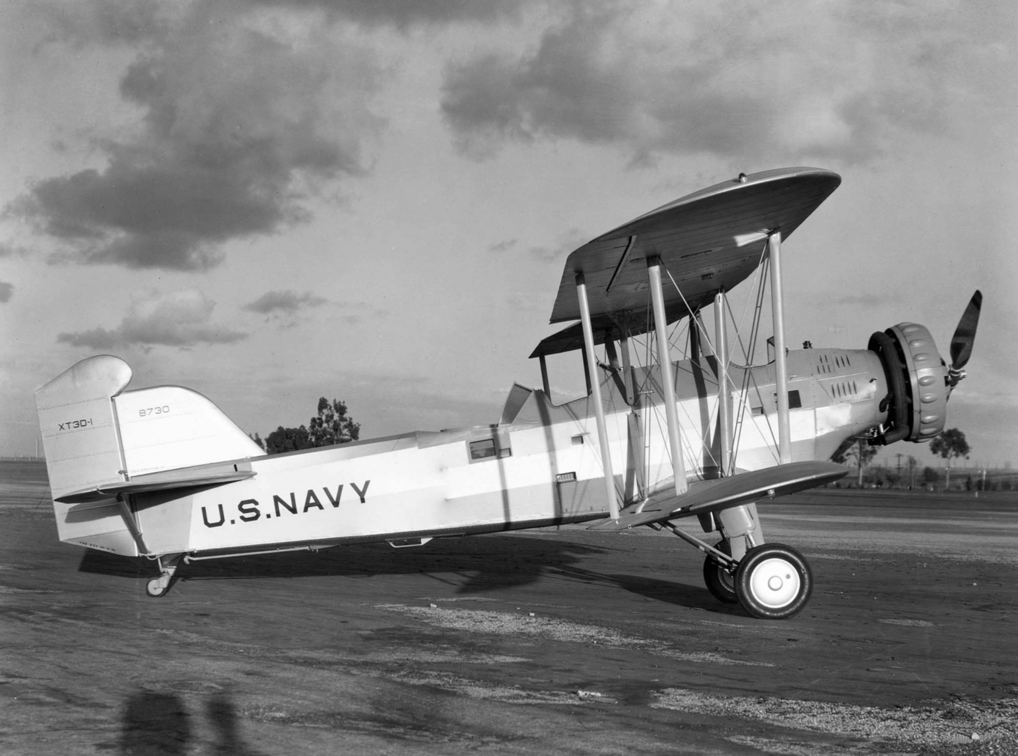 A U.S. Navy Douglas XT3D-1 (BuNo 8730) in September 1931. Note the shadow of the photographer and his camera in the left foreground. The Douglas T3D was ordered as a successor for the Martin T4M and Great Lakes TG torpedo-bombers. It featured folding wings and a forward-looking window in the fuselage to assist in the aiming of ordnance. It was delivered to the U.S. Navy in 1931, but flight testing revealed inadequate performance, particularly with the Pratt & Whitney Hornet S2B1-G engine. Subsequently, the aircraft was equipped with a Pratt & Whitney XR-1830-54 and enclosed cockpits. The aircraft was then re-designated XT3D-2 and delivered to the U.S. Navy in 1933, by which time the service had shifted its attention to dive-bombing. The aircraft remained in use as an engine test bed until 1941, at which time it was stricken from the U.S. Navy inventory.